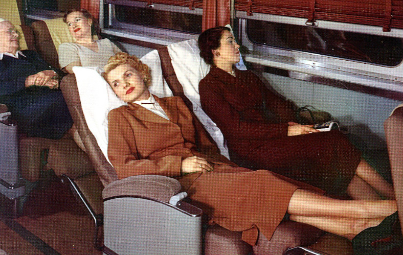 Postcard photo of the seating in a coach car of the Union Pacific Railroad.